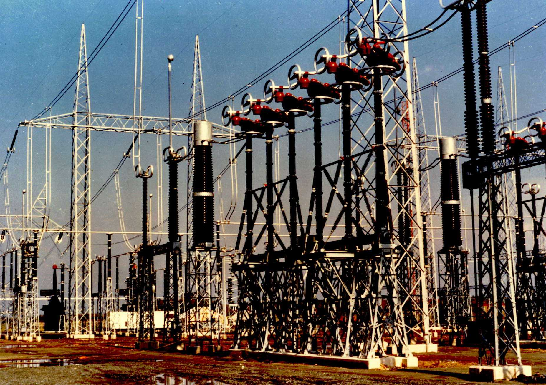 High voltage switchgear at a transmission substation.